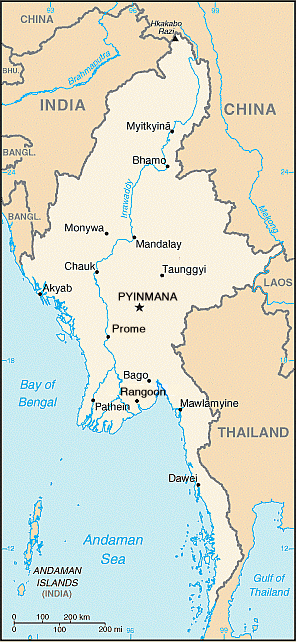 Map of Myanmar1. Same as Myanmar.gif except with new capital of Pyinmana as per November 2005 government relocation.